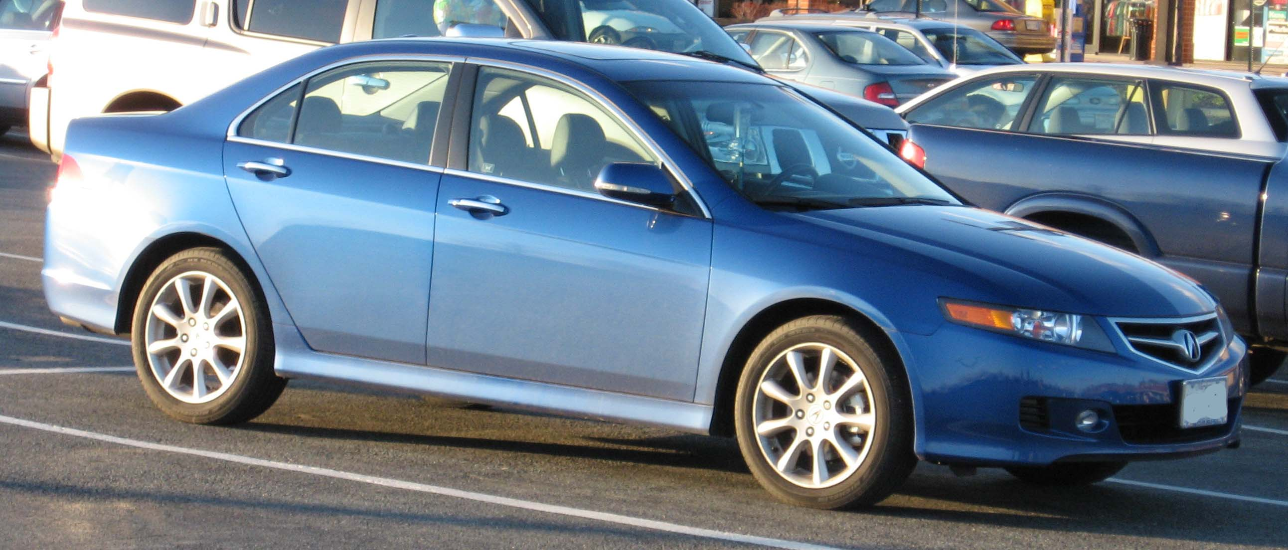 2007 Acura TSX photographed in USA.